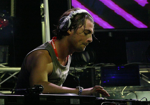 Axwell live